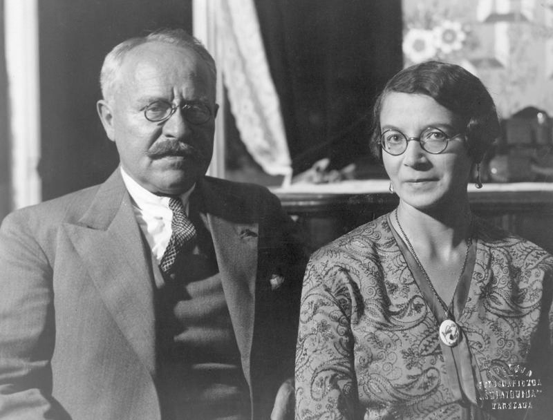 Estonian neuroscientist Ludvig Puusepp with his wife on a visit to Warsaw, Poland.